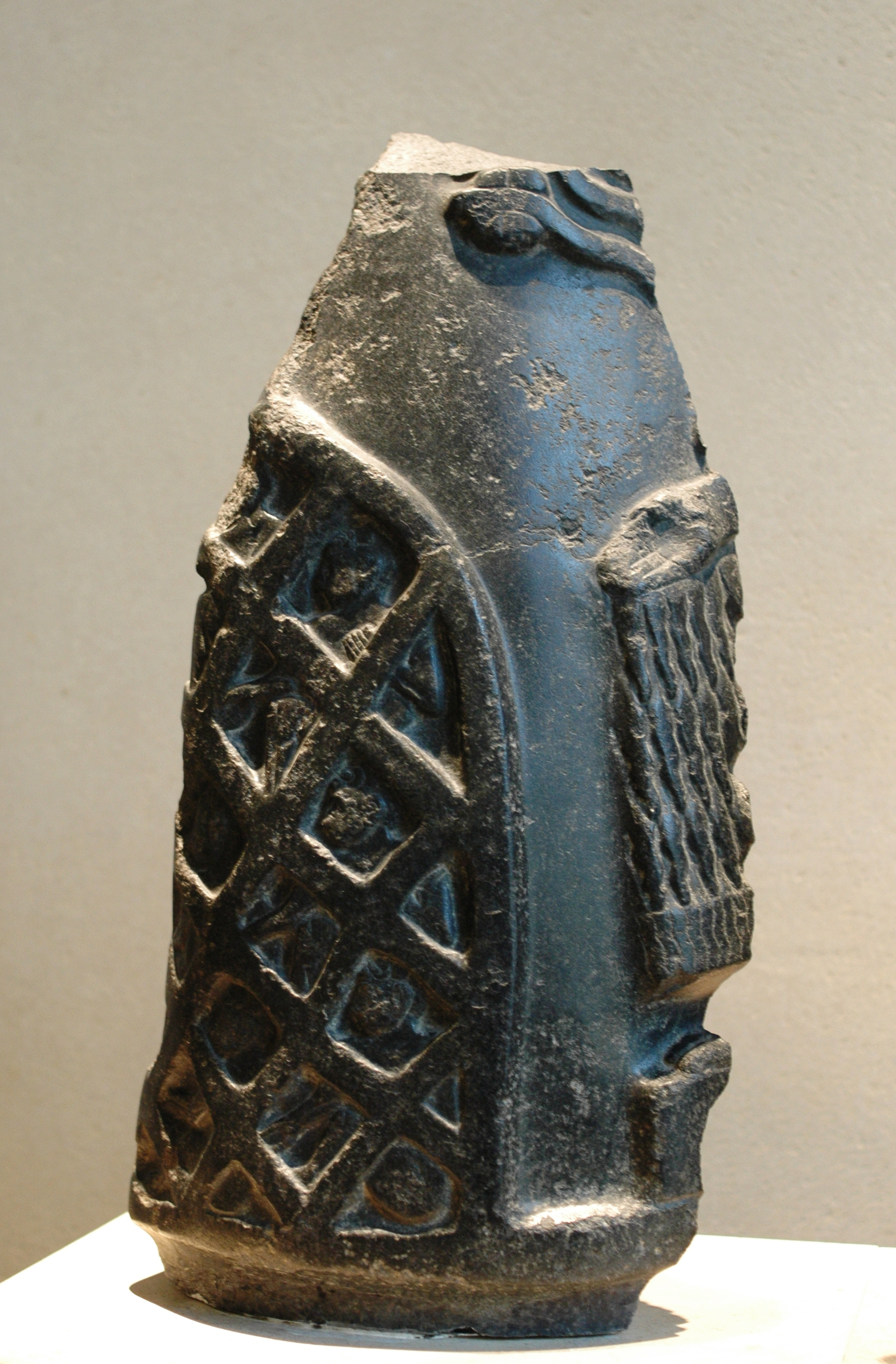 Victory stele of an Akkadian king, fragment. Diorite, Akkad Period (ca. 2300 BC), brought to Susa as a war spoil in the 12th century BC. Found in Susa.